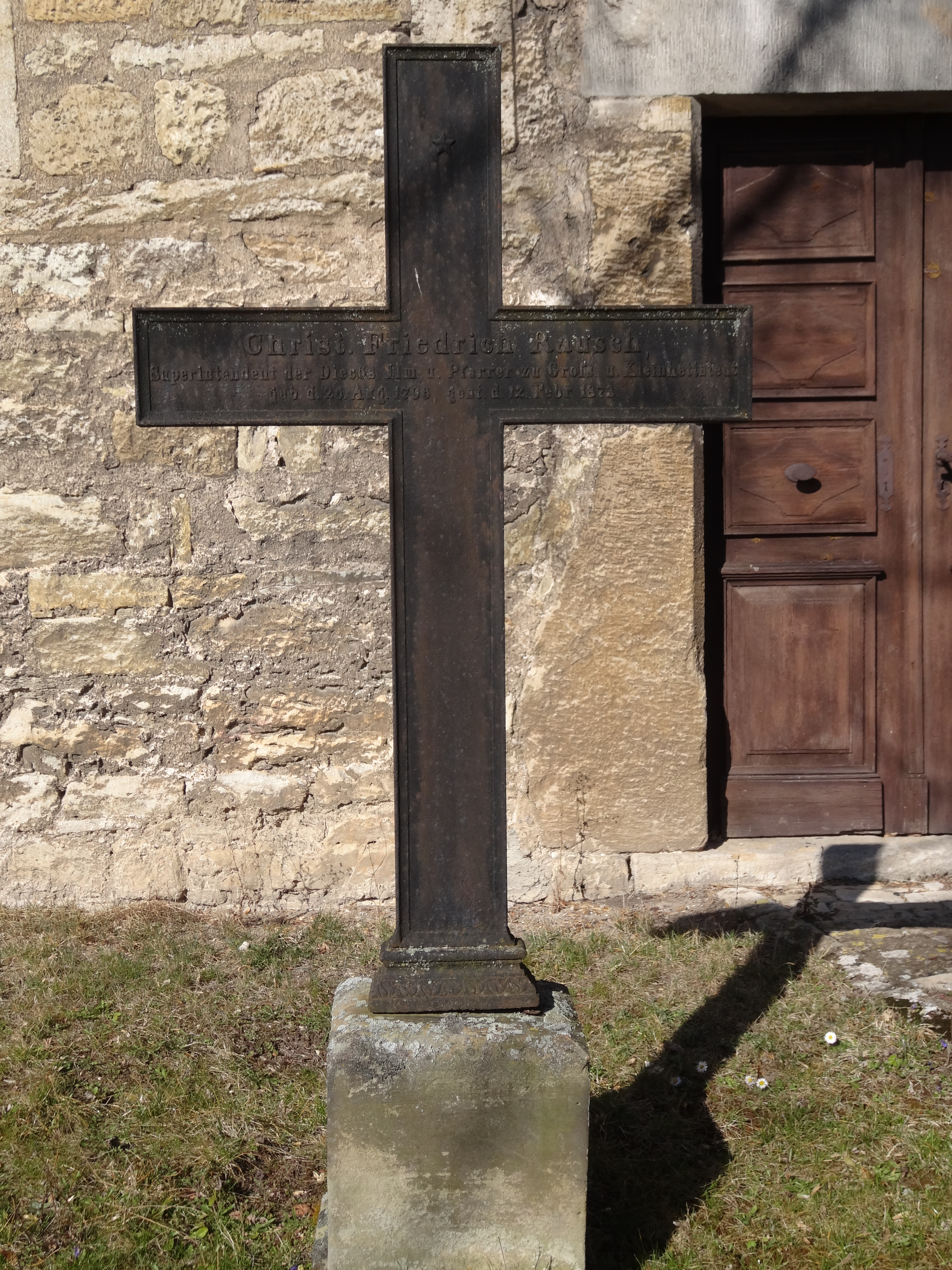 Grave cross on the cemetery of Großhettstedt, Thuringia, Germany